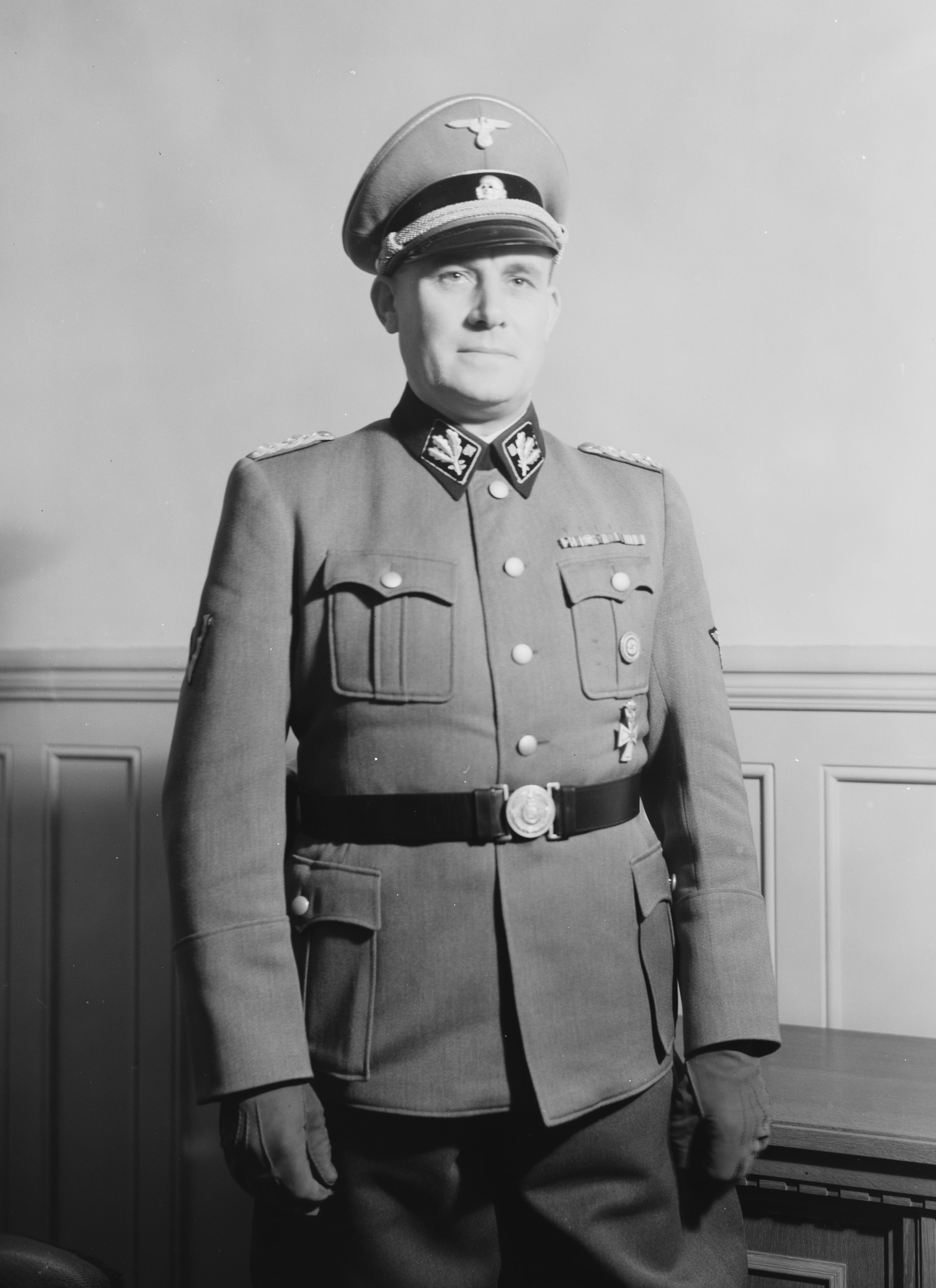 Wilhelm Rediess 1941. Rediess (10 October 1900 – 8 May 1945) was the SS and Police Leader during the German occupation of Norway in the Second World War. He was also the commander of all SS troops stationed in occupied Norway, assuming command on 22 June 1940 until his death in 1945.